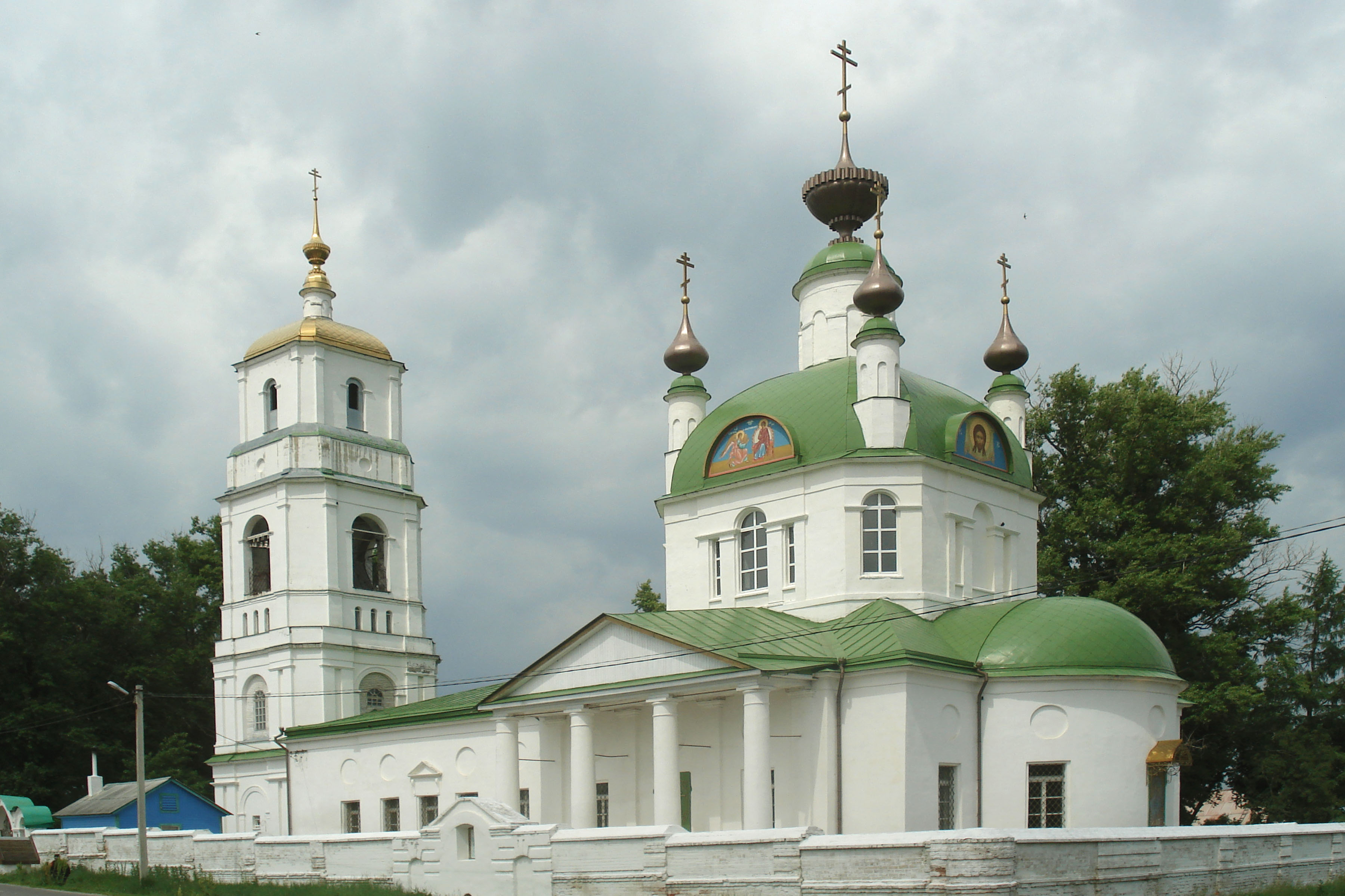 Trinity church (the Moscow Patriarchate) in the village of Khoteichi, Moscow region. The church was consecrated in 1823.